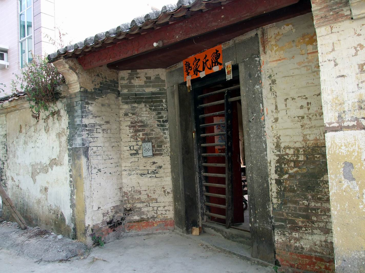 松柏塱村內一所私塾 Chan Study Hall, Entrance Hall, Tsung Pak Long, Sheung Shui, N.T. Built in 1910s, Chan Ancestral Hall is one of the ancestral halls located in Tsung Pak Long, Sheung Shui. The Chan clans of Tsung Pak Long and Pan Chung, Tai Po still worship their ancestors at the Ancestral Hall. Though its Chinese name also suggests it is "study hall", the Ancestral Hall functions as a residence as well. In the past, the Chans held feasts at the Chan Ancestral Hall in Tsang Pak Long when there was wedding.